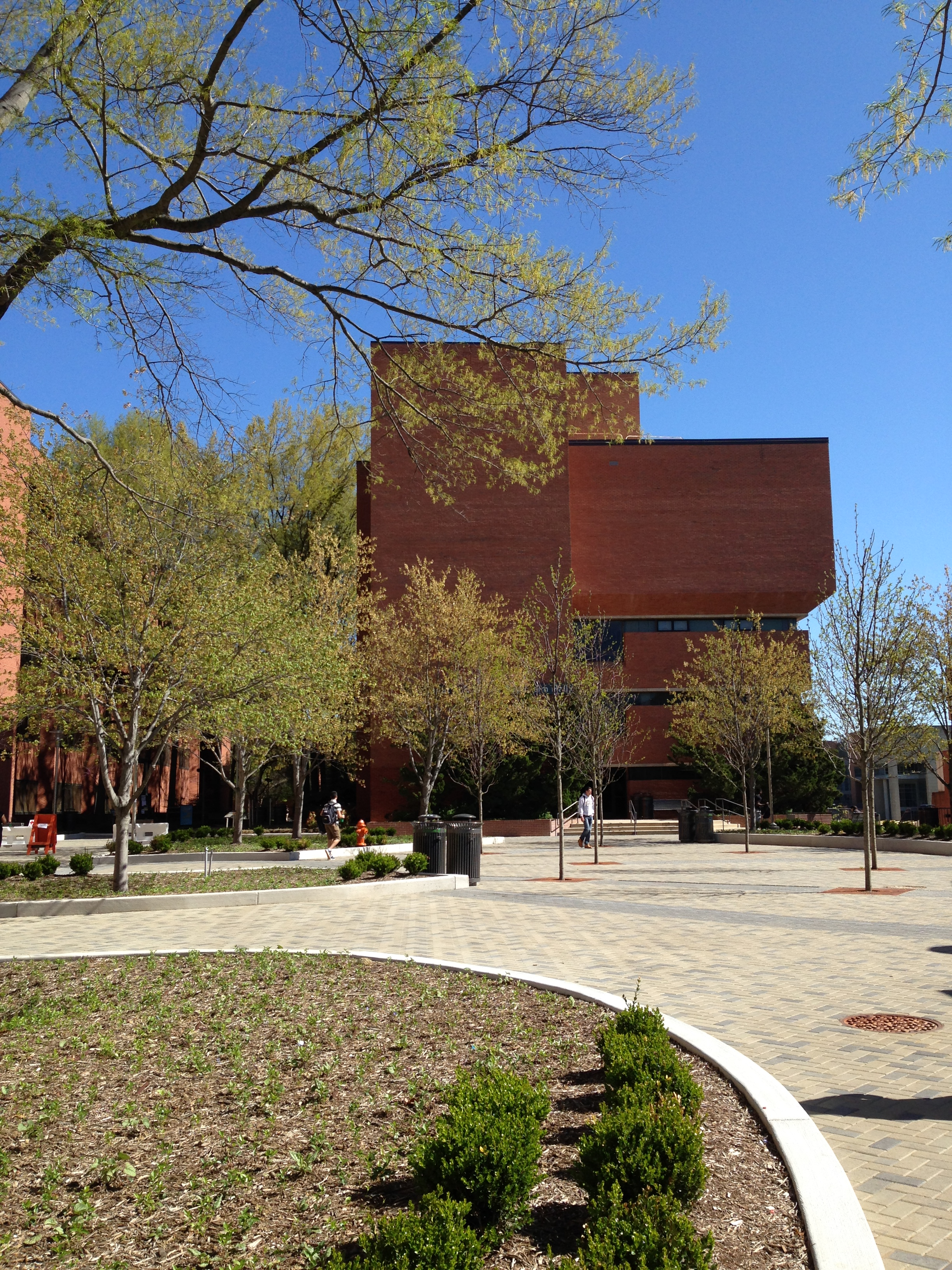 A view of Sondheim Hall from the Campus Entrance Plaza on the campus of the University of MD Baltimore County.